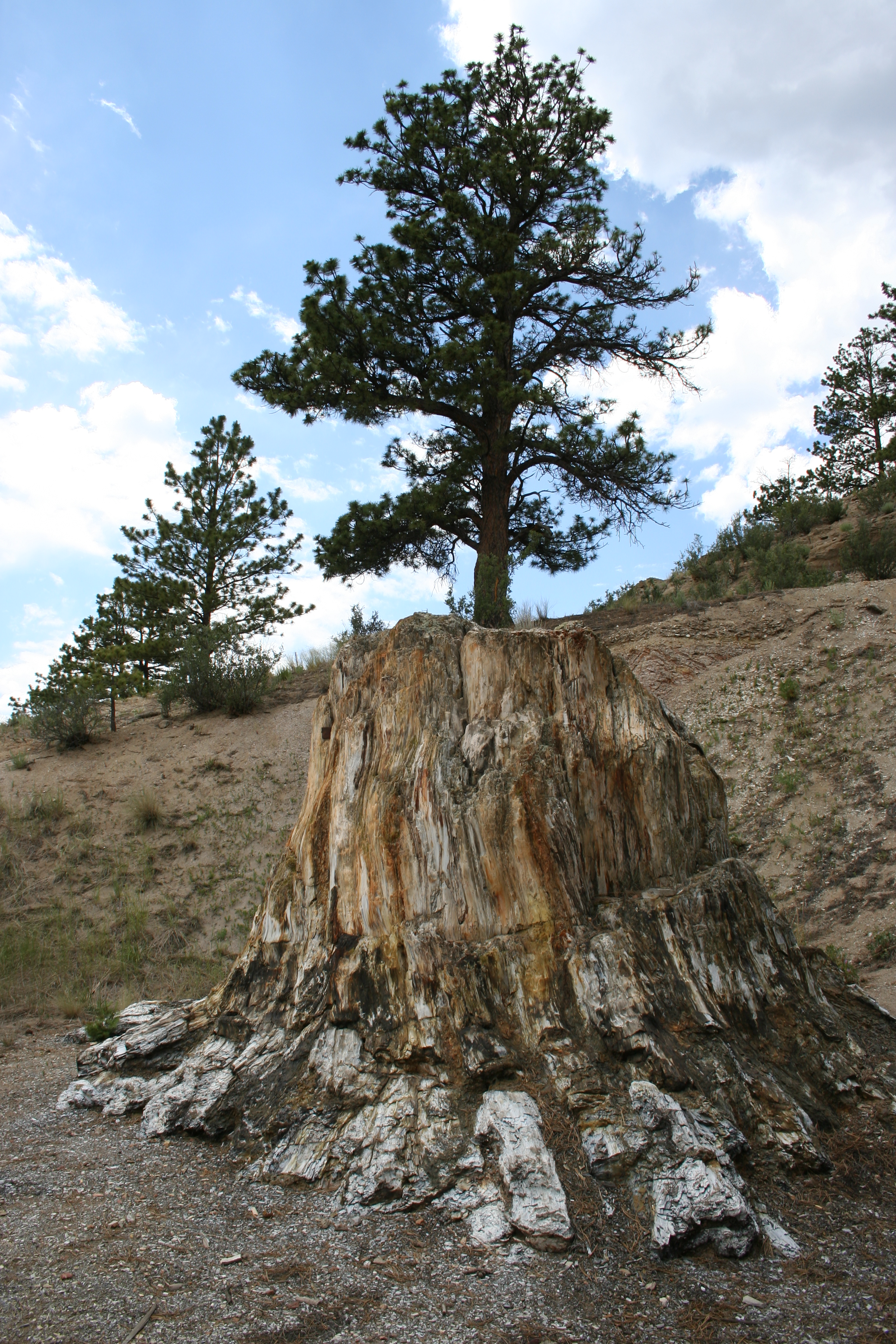 Petrified redwood stump at Florissant Fossil Beds National Monument in Florissant, Colorado.Big Stump